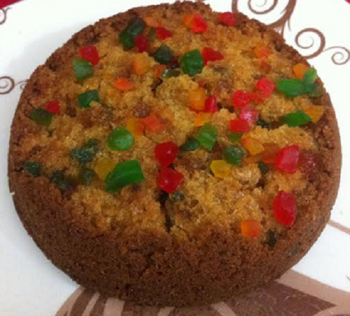 A delicious Tutti Frutti cooker cake made from simple ingredients is all time Indian favorite cake recipe for those who do not have oven or microwave in their kitchen.